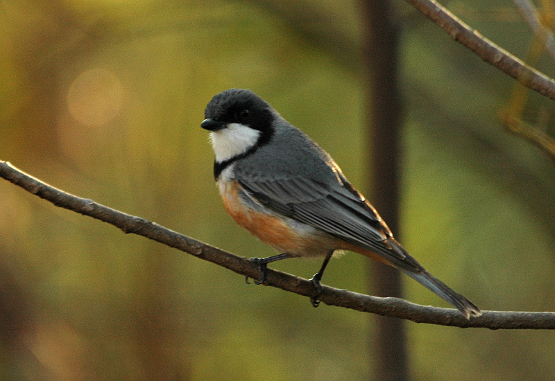 Rufous Whistler Pachycephala rufiventris Kobble Creek SE Queensland